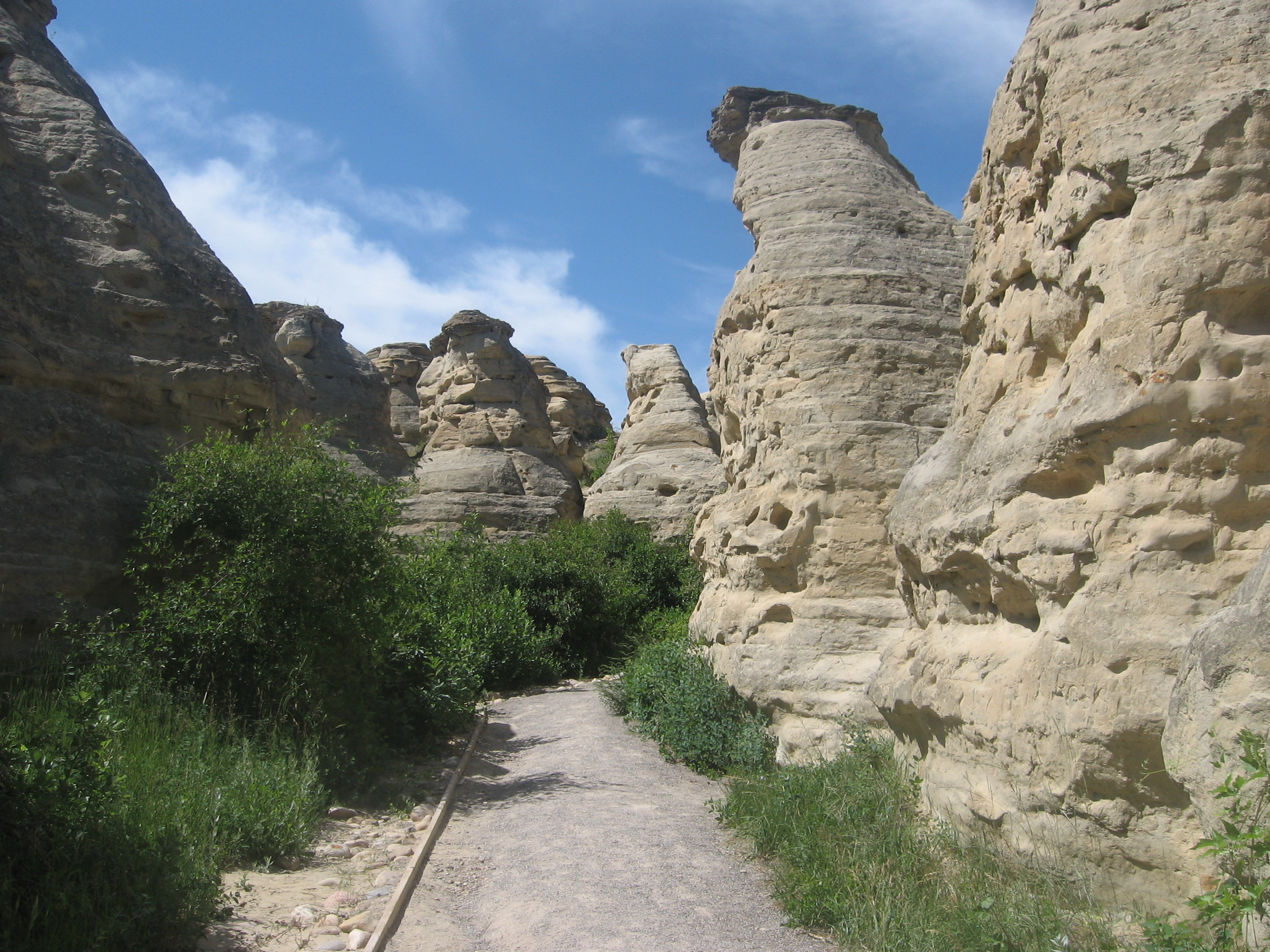 Hoodoos in Writing-on-Stone Provincial Park, Alberta, Canada